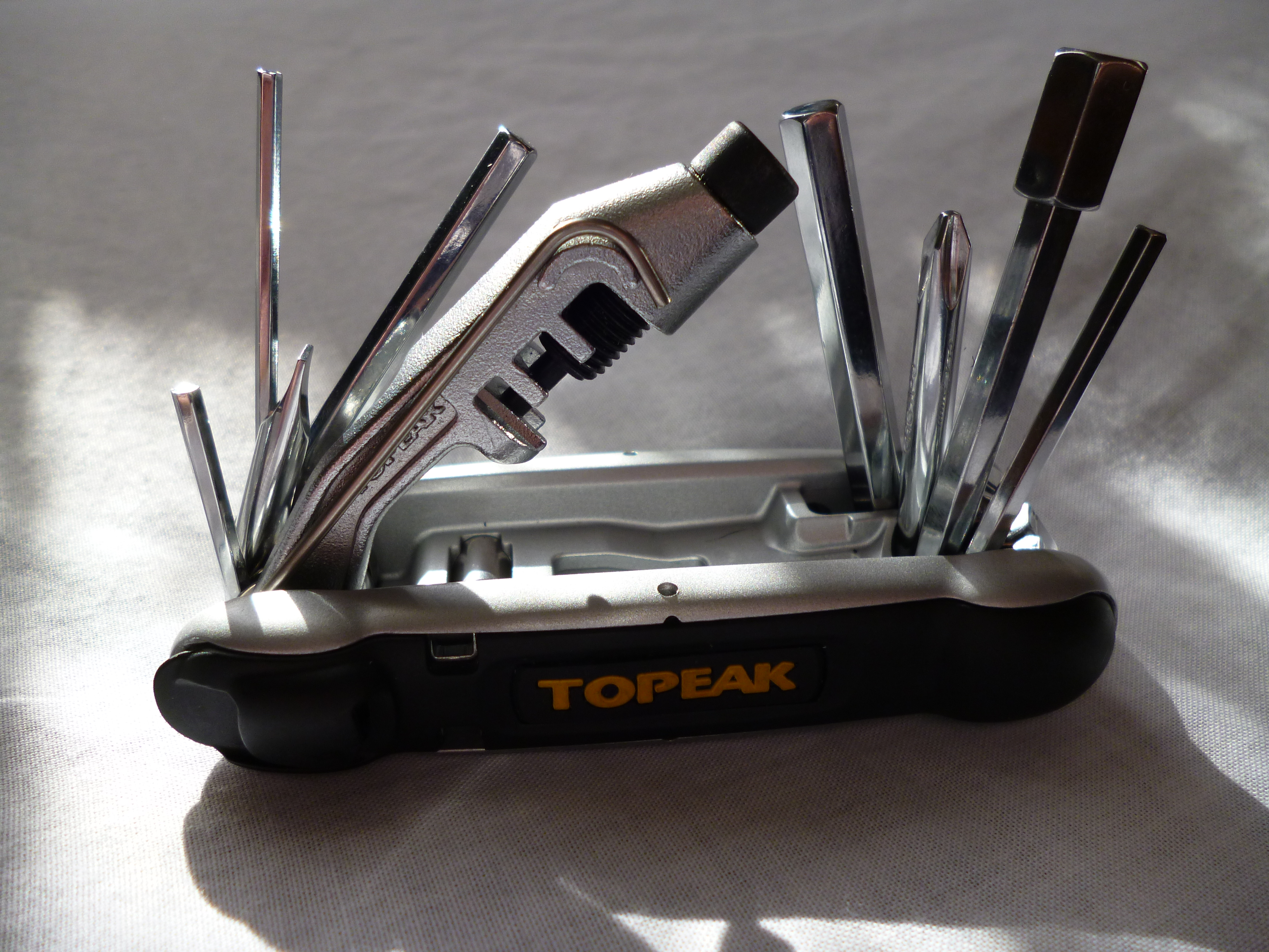 A high resolution photo of a typical bicycle multi-tool. Such items have both flat and cross-head screwdrivers, a selection of hex wrenches, and a chain tool for breaking chains. A chain hook can be seen mounted to the side of the chain tool; this holds the two ends of a chain while a master link is fitted. The 5mm hex wrench is fitted with a removable cap. Other parts can reside in the body of the tool and the plastic side panels are used both as tire levers, and as a driver for the chain tool. Good quality examples are made from chrome vanadium steel, the best compromise for such hand tools.